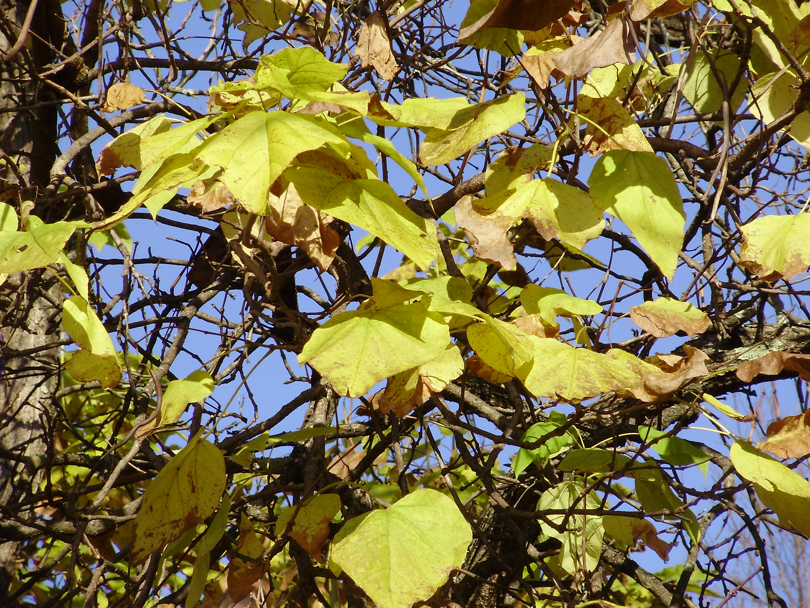 Catalpa foliage during autumn along Terrace Boulevard in Ewing, New Jersey